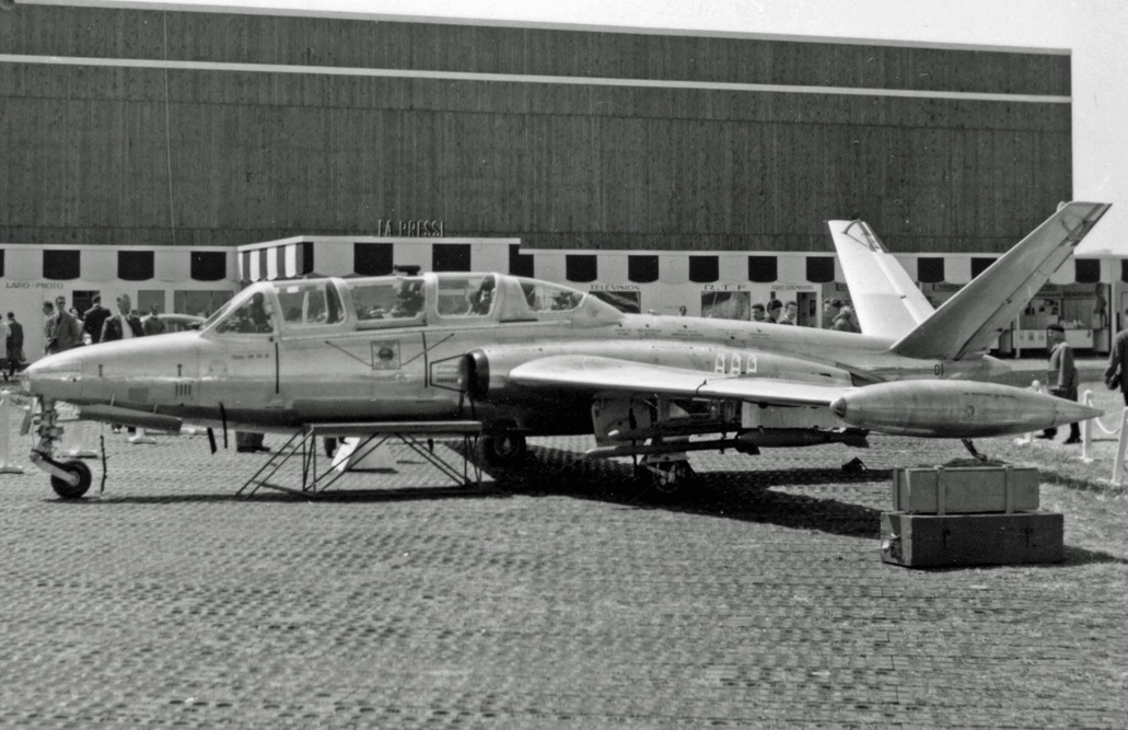 Fouga CM.170M Magister No. 01, the first of two prototypes for the French Aeronavale